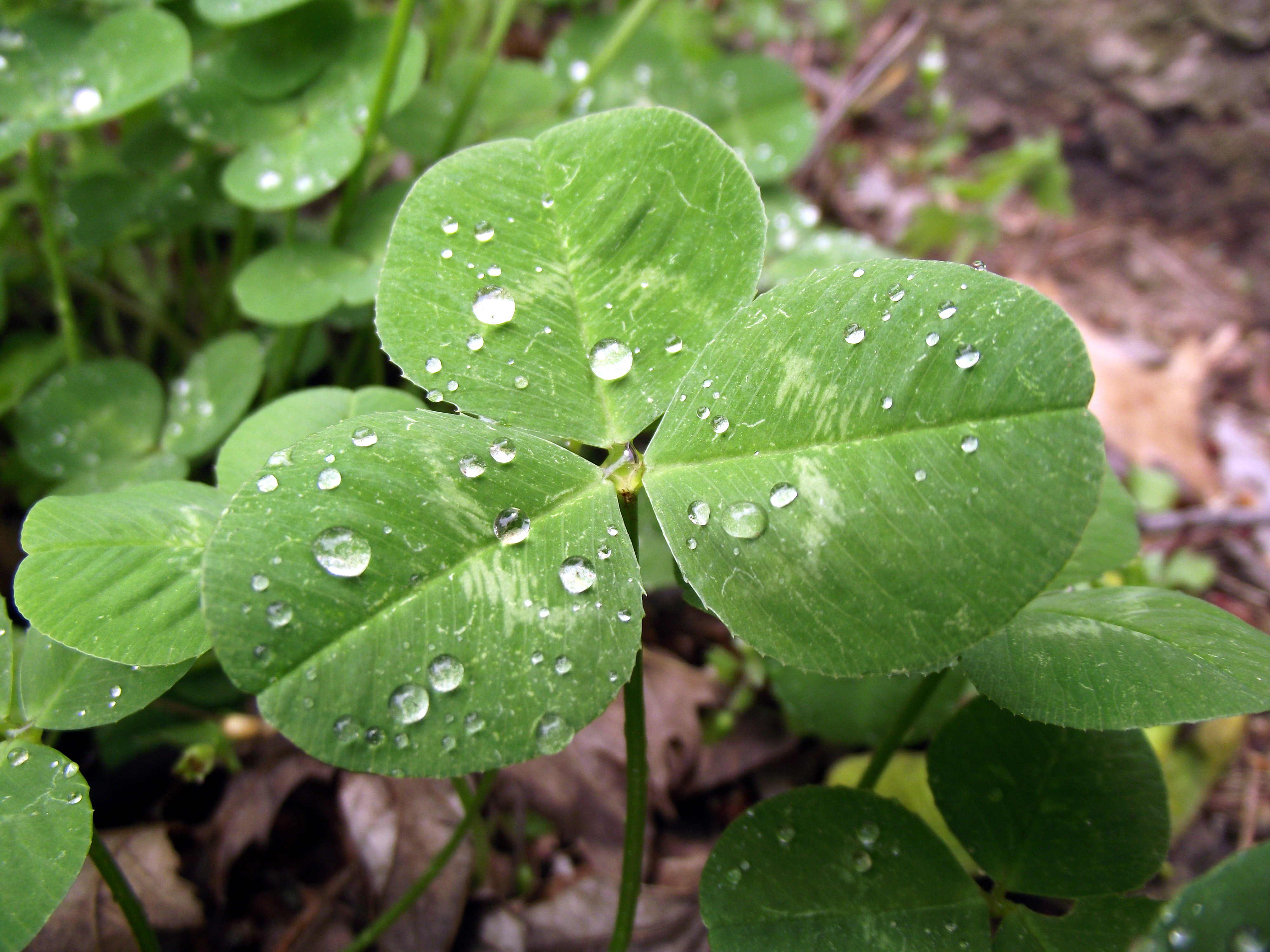 The Leaf of a trifolium repens plant after a shower. Some of the drops of water have a strange optical effect making them look like they are floating.